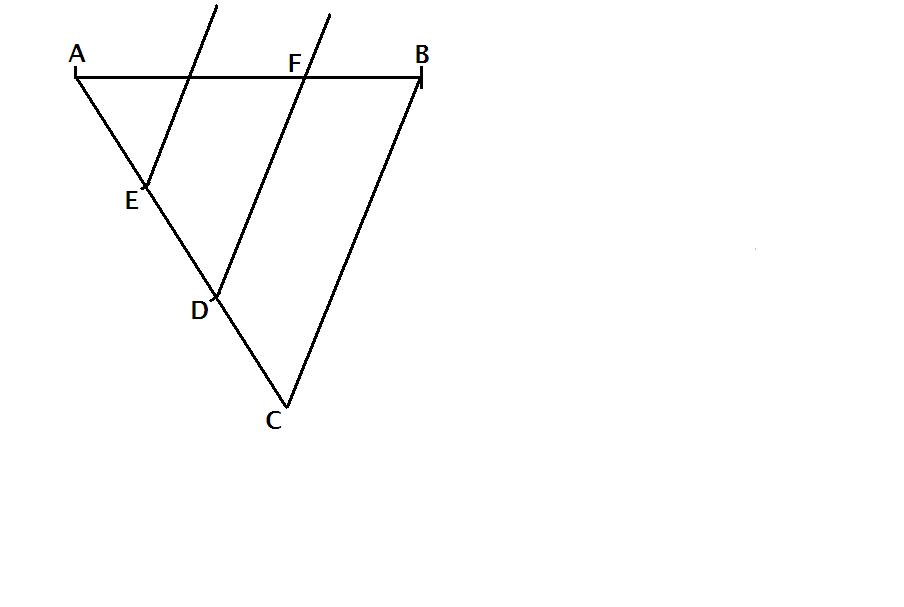 Self made drawing of the mathematic construction. This image is for everybody to use. Linjestykket, tredeling